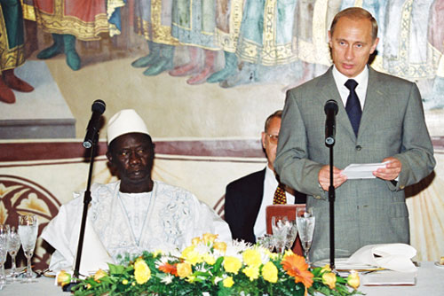 THE GRAND KREMLIN PALACE, MOSCOW. President Putin at the official breakfast in honour of Guinea's President Lansana Conte.